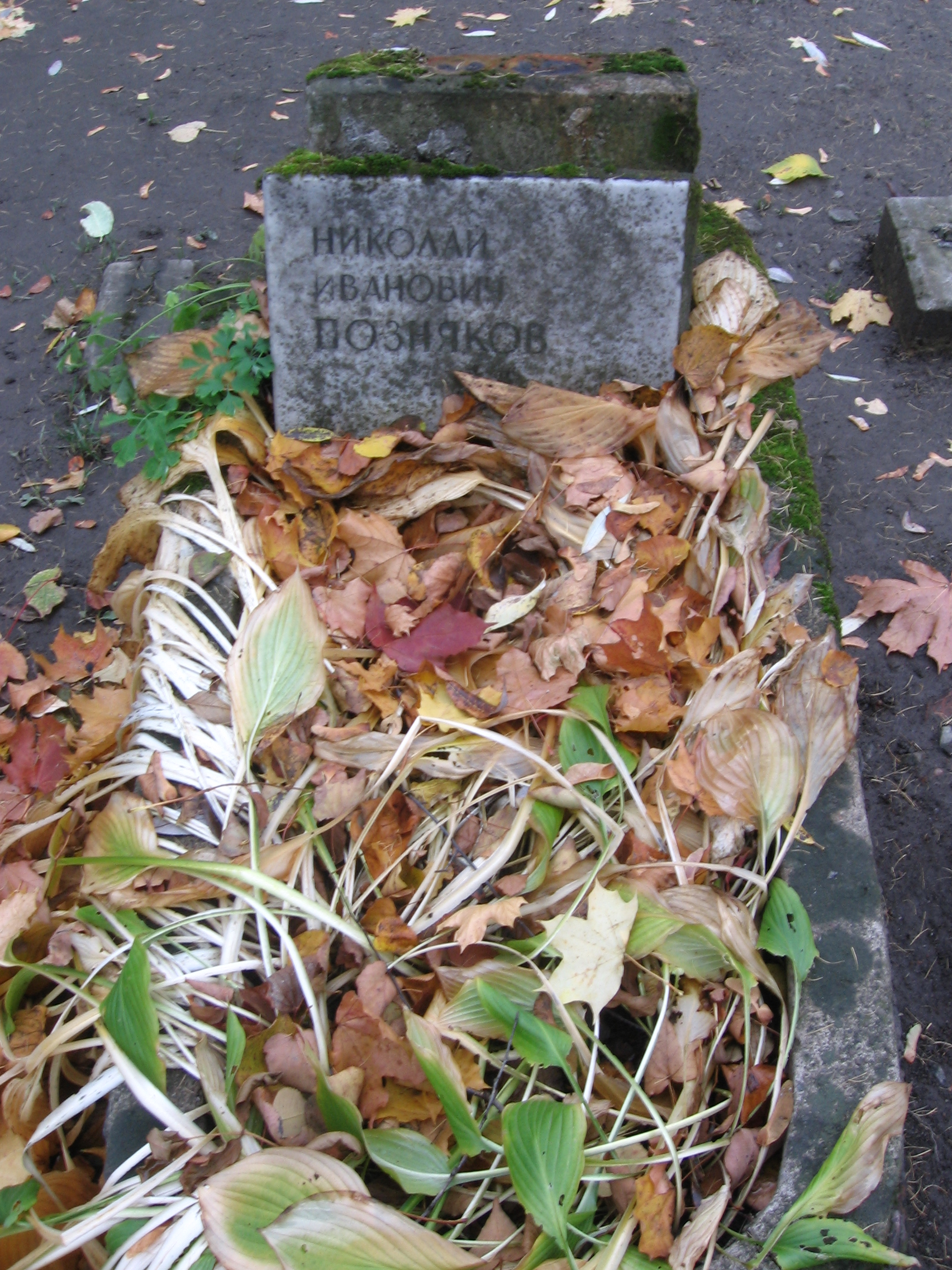 Grave of Nikolay Poznyakov